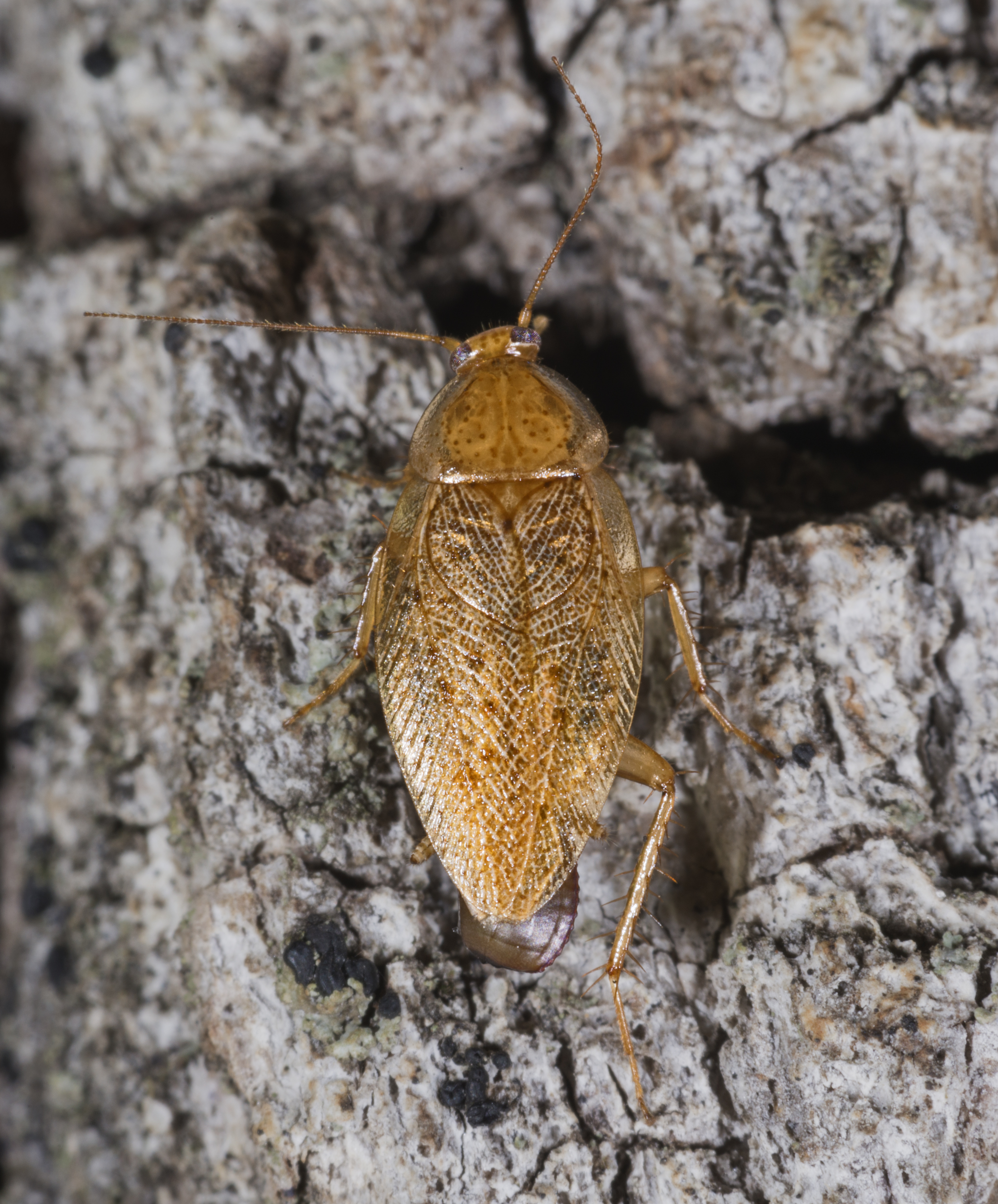 Ectobius pallidus Dorsal view. Juvenile form.